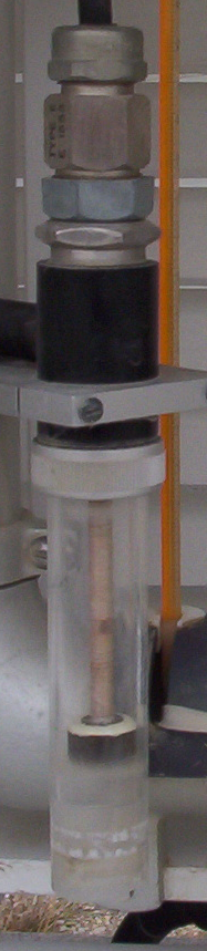 Dewcell sensor in a Stevenson screen to measure dew point